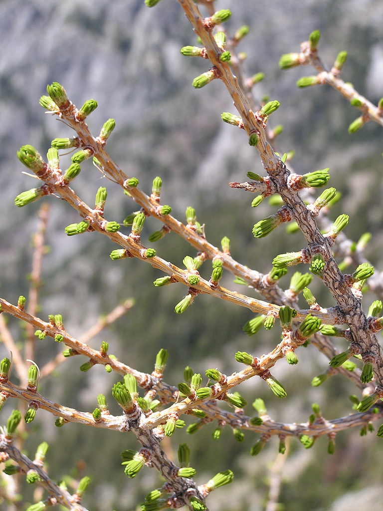 Larix lyallii spring foliage, North Cascades National Park, Washington, USA.